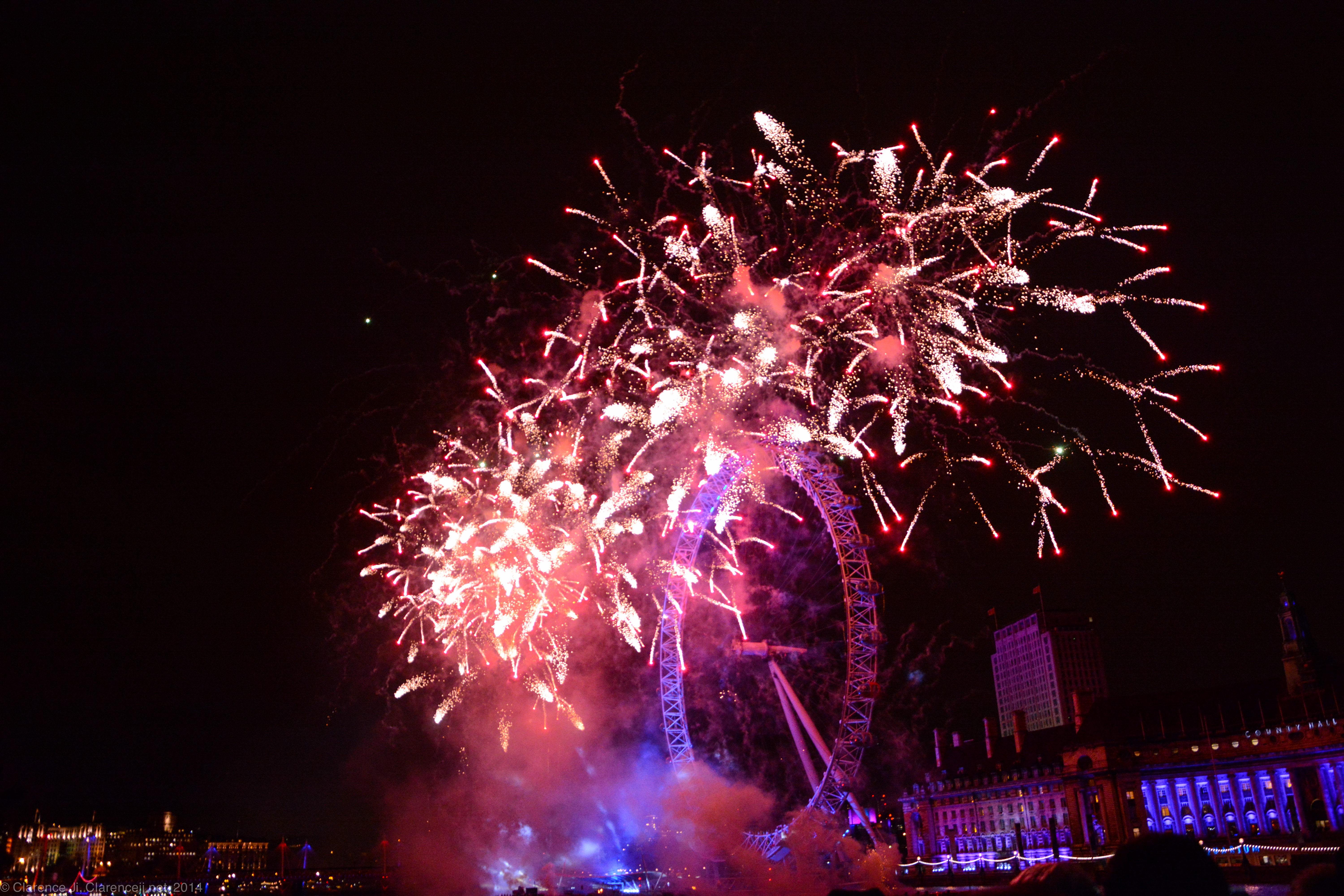 Fireworks over London Eye as part of the New Year's 2013/2014 celebrations.